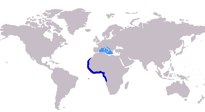 Distribution of longfin crevalle jack, Caranx fischeri using map based on GDFL image